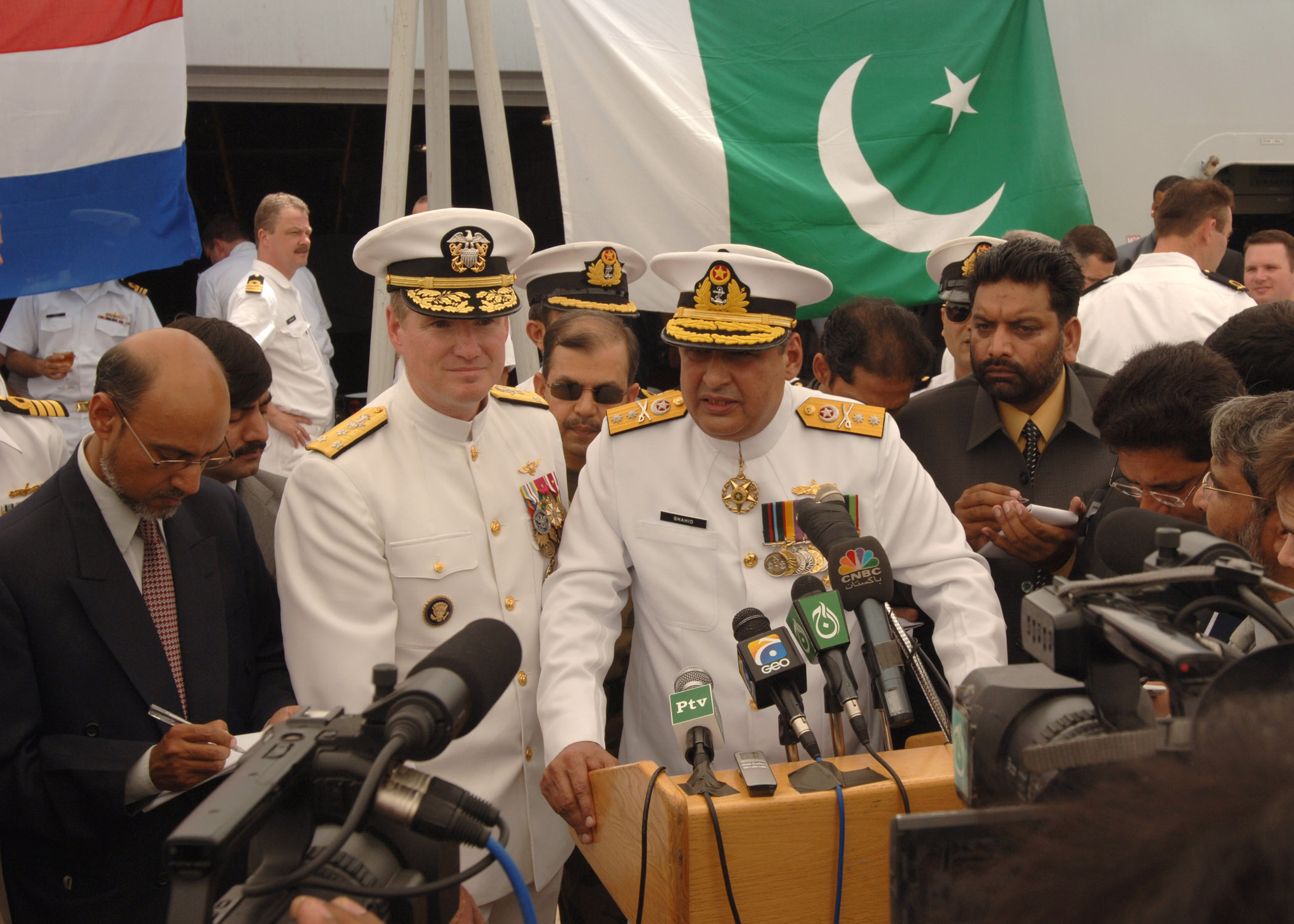 Manama, Bahrain (April 24, 2006) - Combined Forces Maritime Component Commander Vice Adm. Patrick Walsh and Commander, Combined Task Force One Five Zero (CTF-150), Pakistani Rear Adm. Shahid Iqbal speaks to the media following CTF-150’s change of command ceremony aboard HNLMS De Zeven Provincien (F802). Iqbal relieved Royal Netherlands Navy Commodore Hank Ort as CTF-150. U.S. Navy photo by Illustrator Draftsman 2nd Class Danny Asberry (RELEASED)